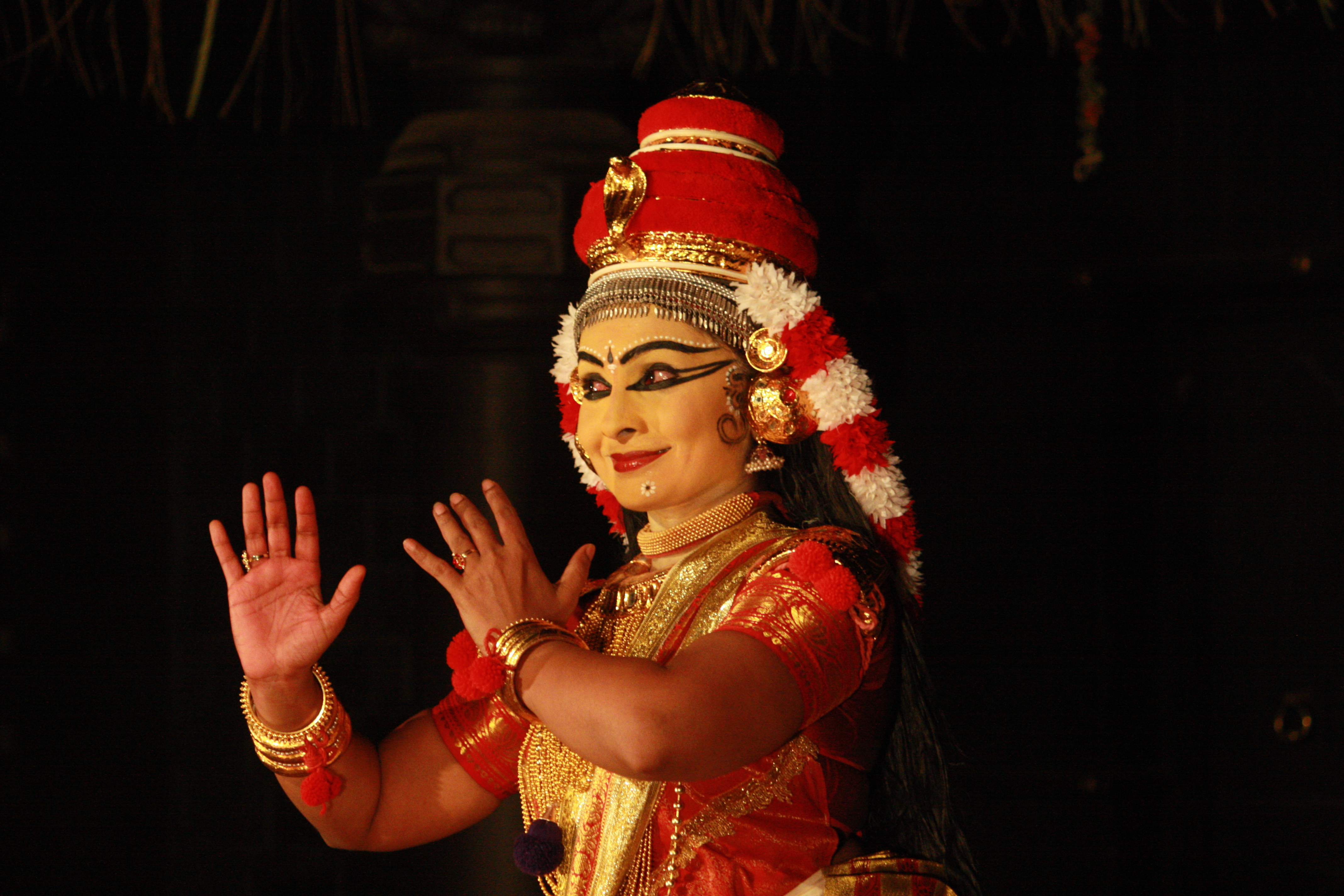 Koodiyattam artist Dr Indu G performing Nangyar Koothu at Nepathya's Koothambalam, Moozhikkulam